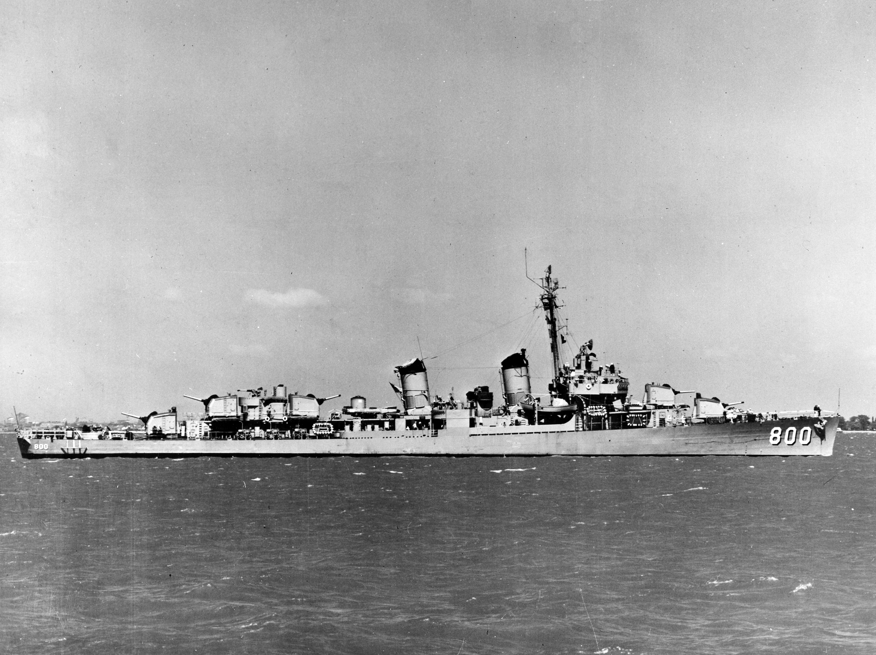 The U.S. Navy destroyer USS Porter (DD-800) in port, circa in 1952.